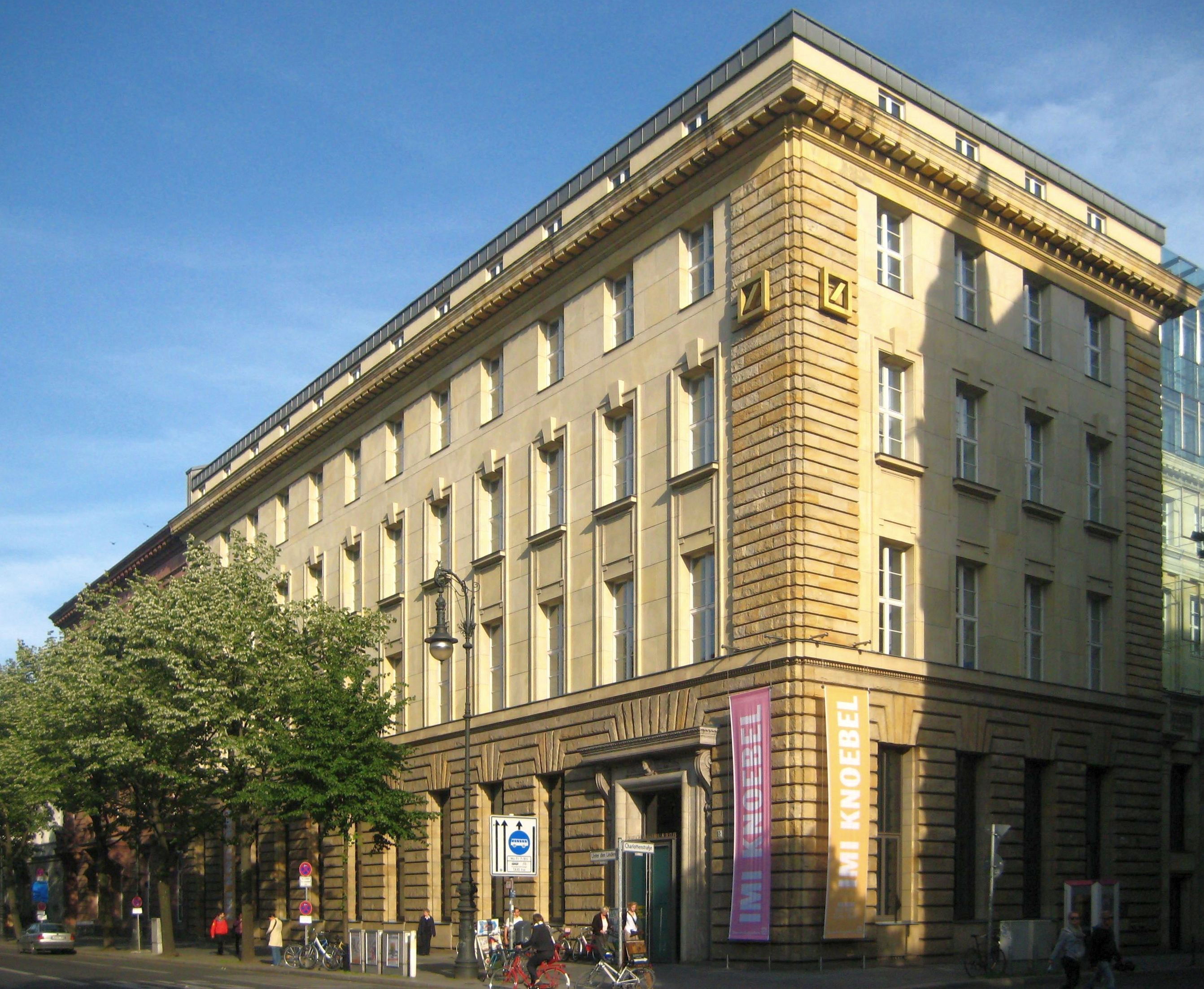 The seat of Deutsche Guggenheim, Unter den Linden 15, corner of Charlottenstraße in Berlin-Mitte. It was built 1922-1925 by the architects Richard Bielenberg and Josef Moser as second annex (Part III) to the head office of Disconto Bank. Its design is in the tradition of the "bank palaces" of the German Empire. Together with the other former buildings of Disconto Bank, it was the seat of the Reichsarbeitsministerium (Reich Labor Ministry) in the Nazi era. The building is landmarked.